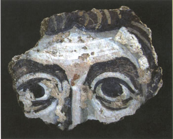 Fragment of a frescoe from begginig of XII century, found in remains of church of sanit Thomas (Sveti Toma) in Kuti, near Herceg Novi, Montenegro.